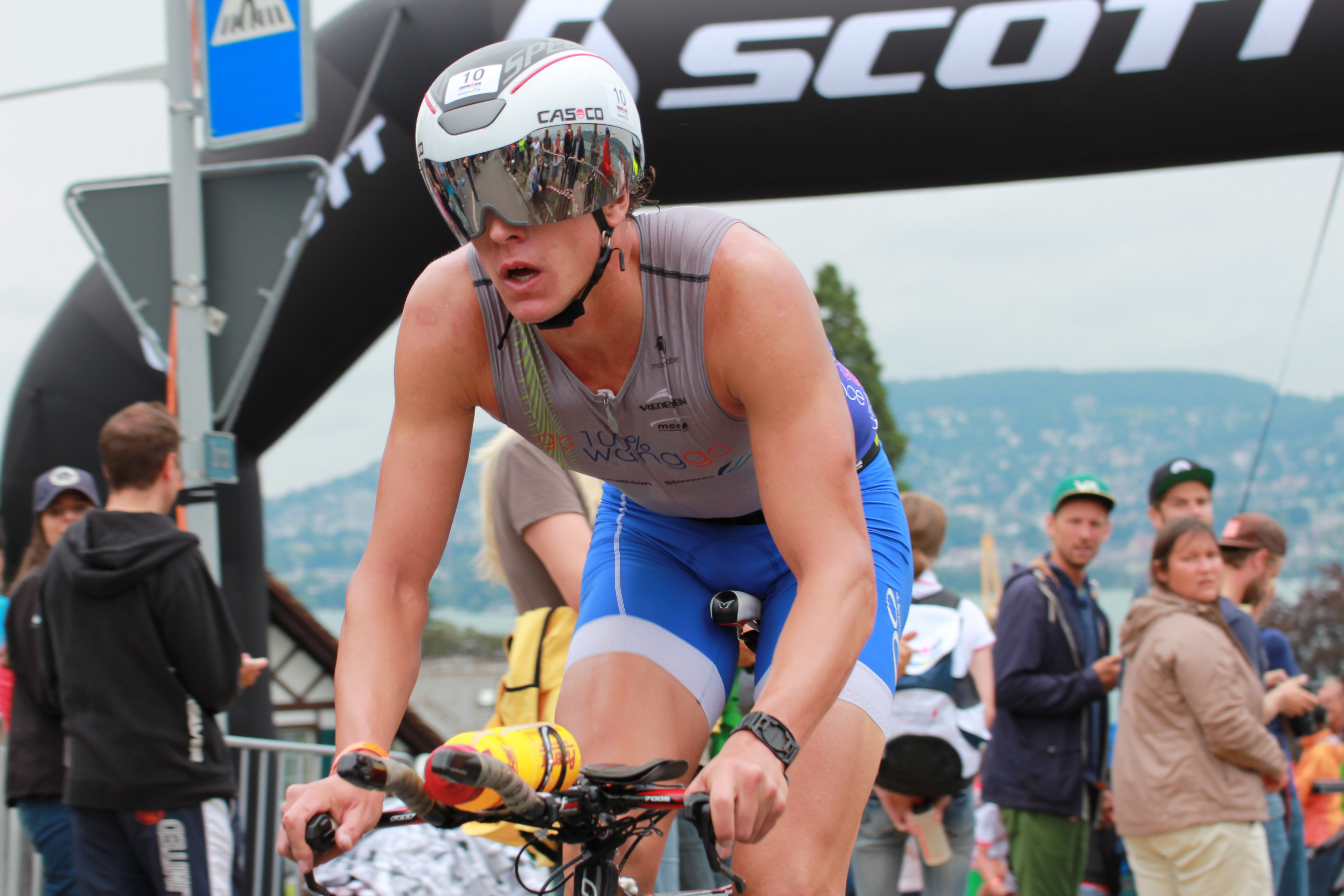 David Plese at Ironman Switzerland 2014